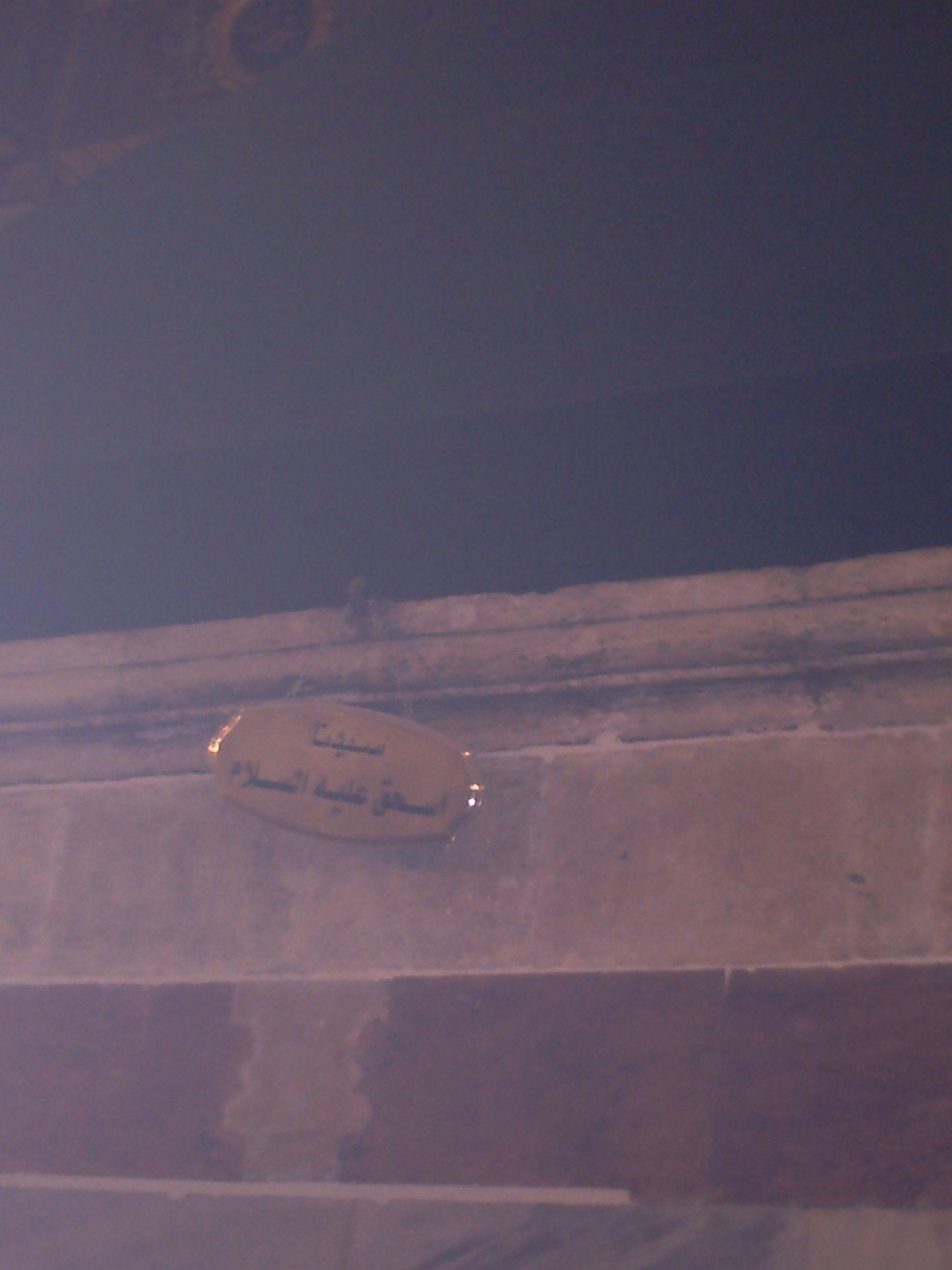 Grave Ishaq name plate